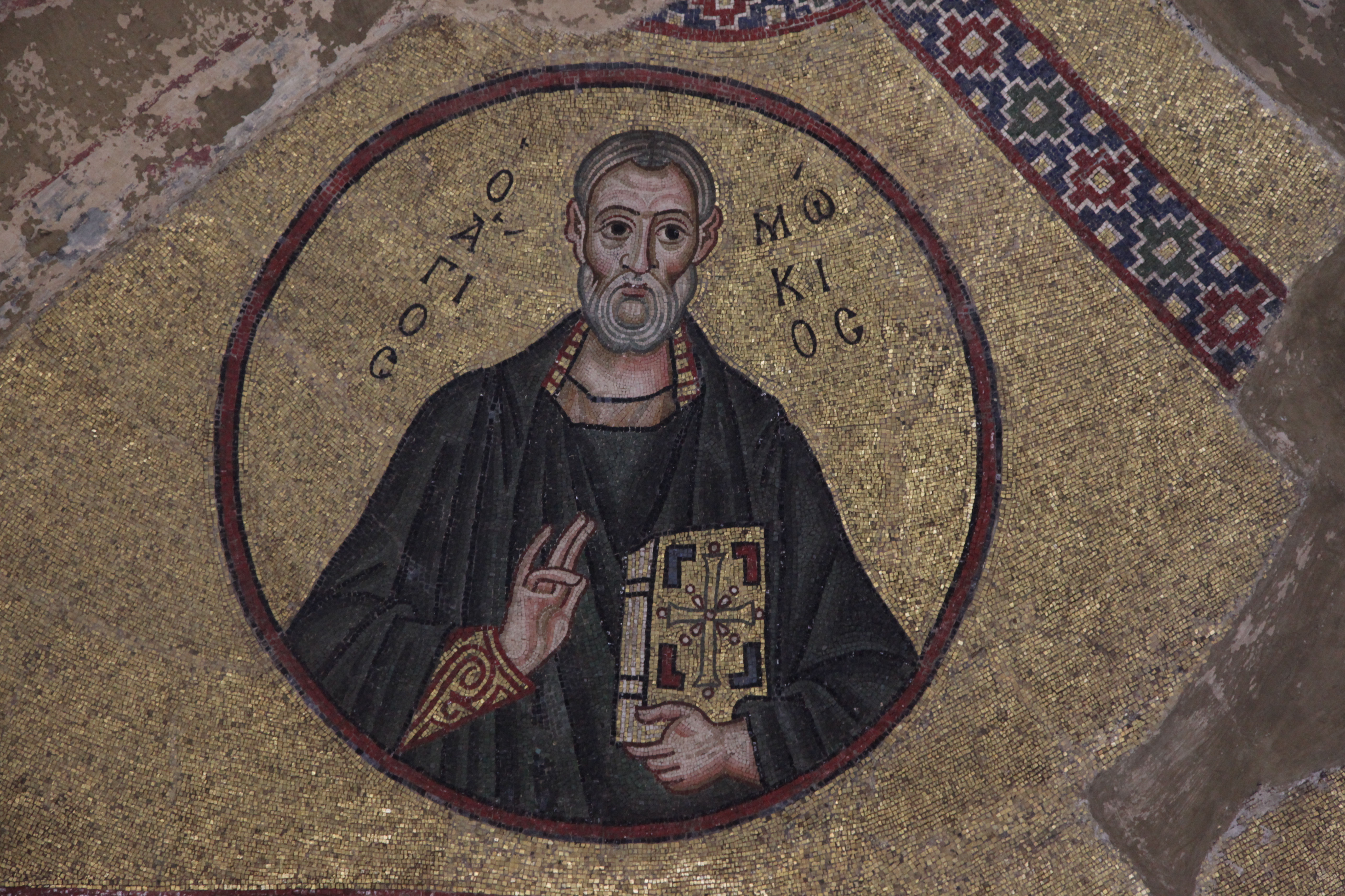 Monastery of Hosios Loukas - Google Maps - Google Earth